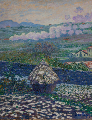 Snow and Thaw